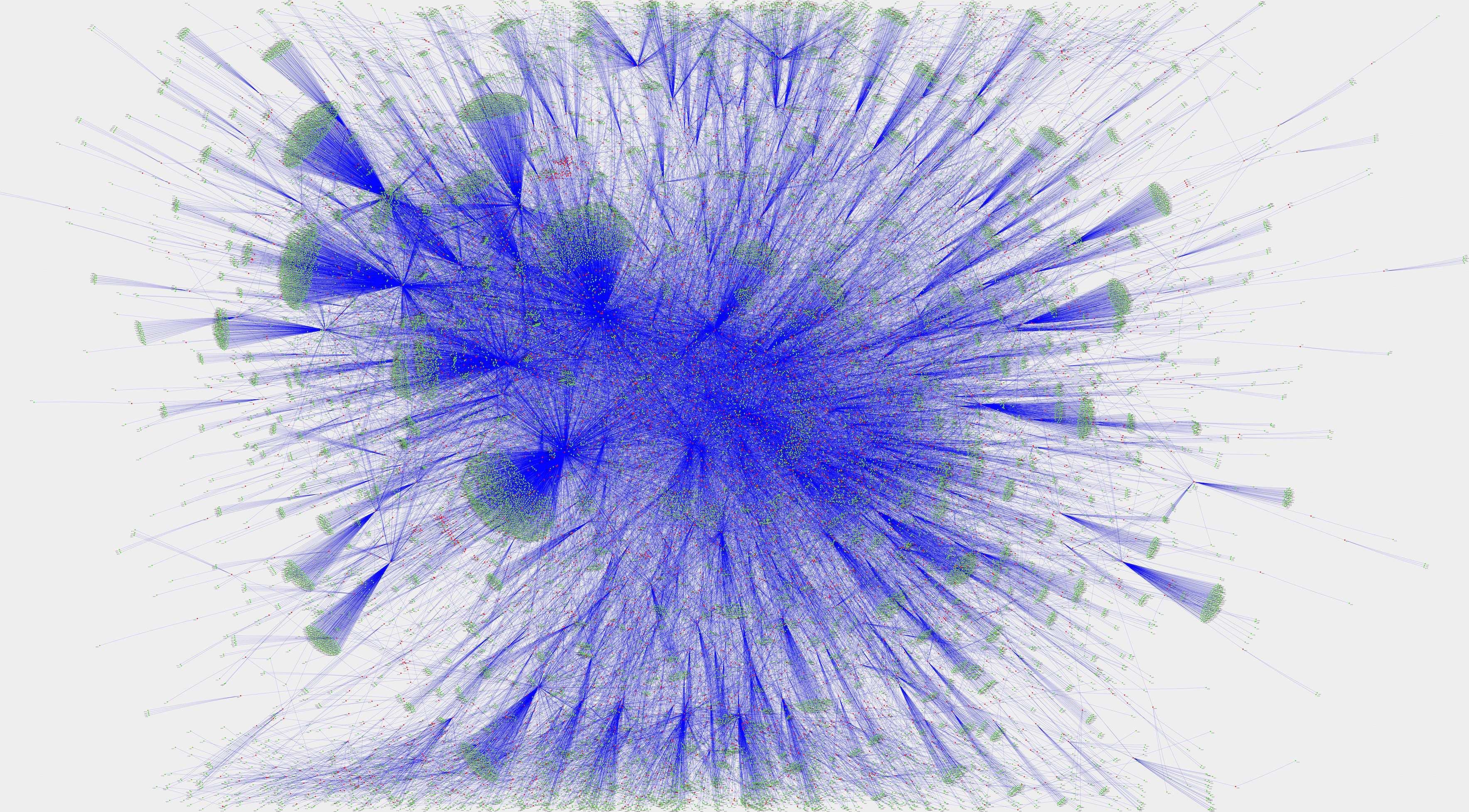 netTransformer Internet BGP peering map